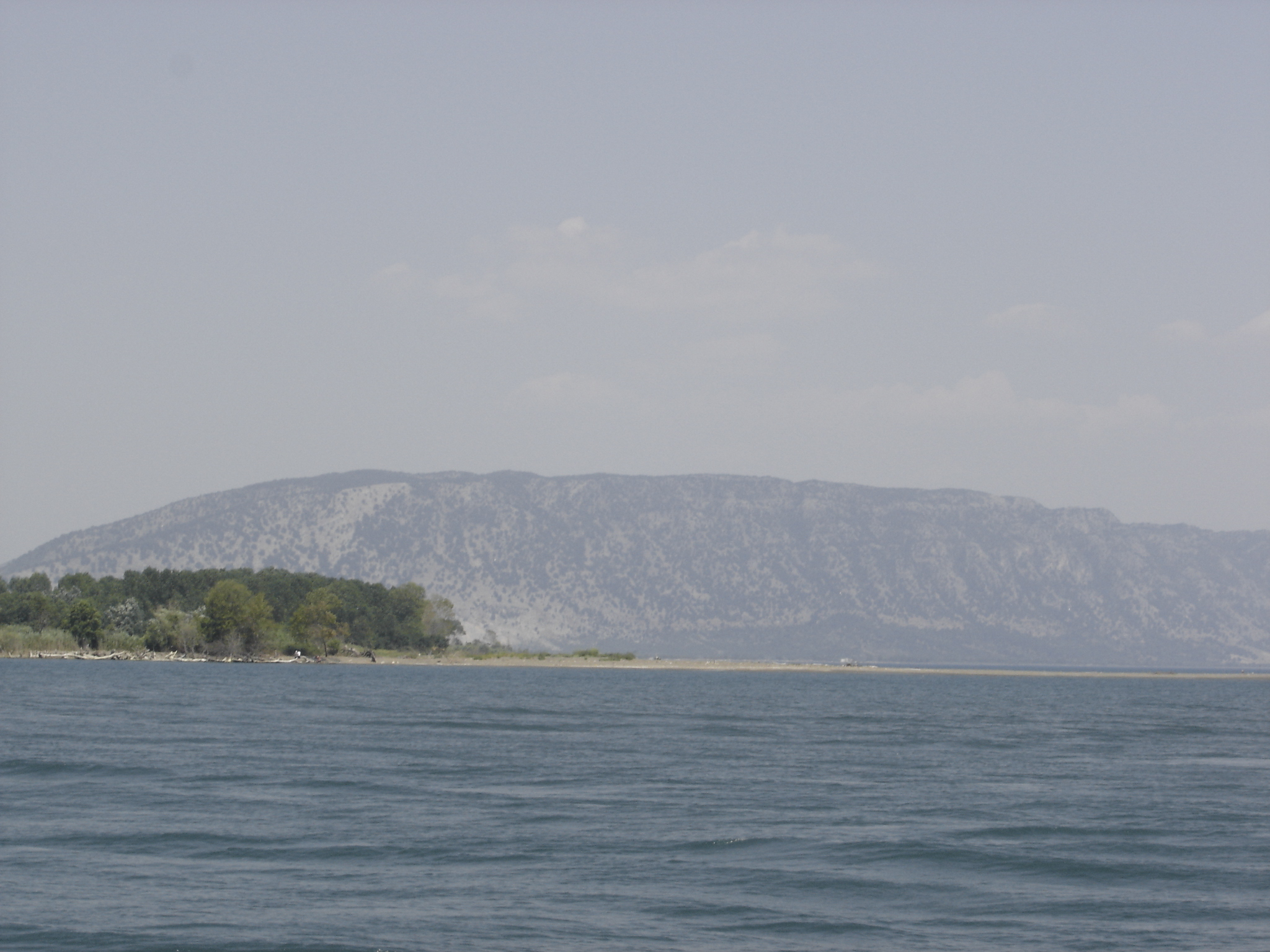 Southernmost tip of Montenegro. Viewed from the sea, we see the mouth of Ada Bojana and Albanian mountains in the background